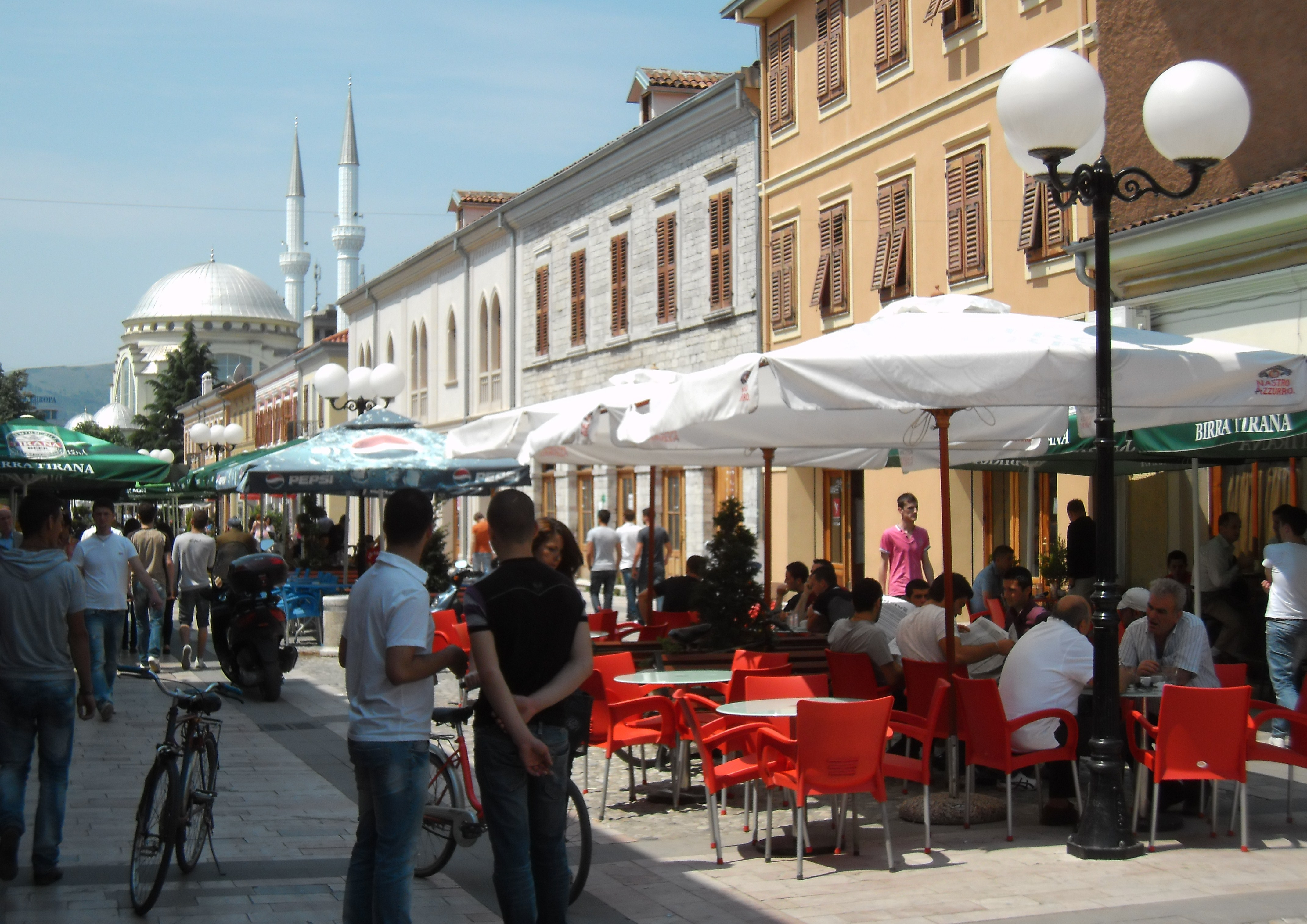 Pedestrian zone Rruga Kole Idromeno; background: Ebu Bekr Mosque